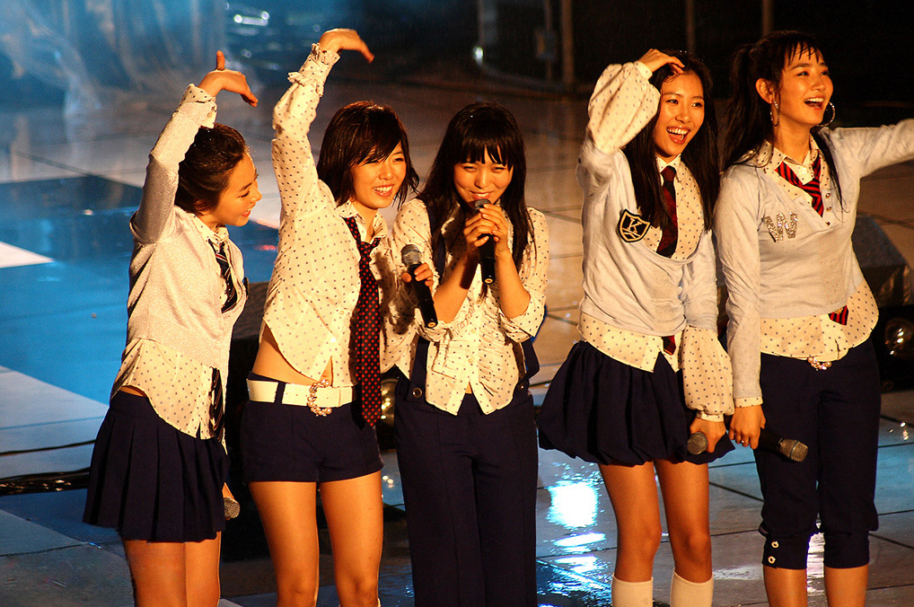 The Wonder Girls at the Daedongje, Hanyang University Festival.